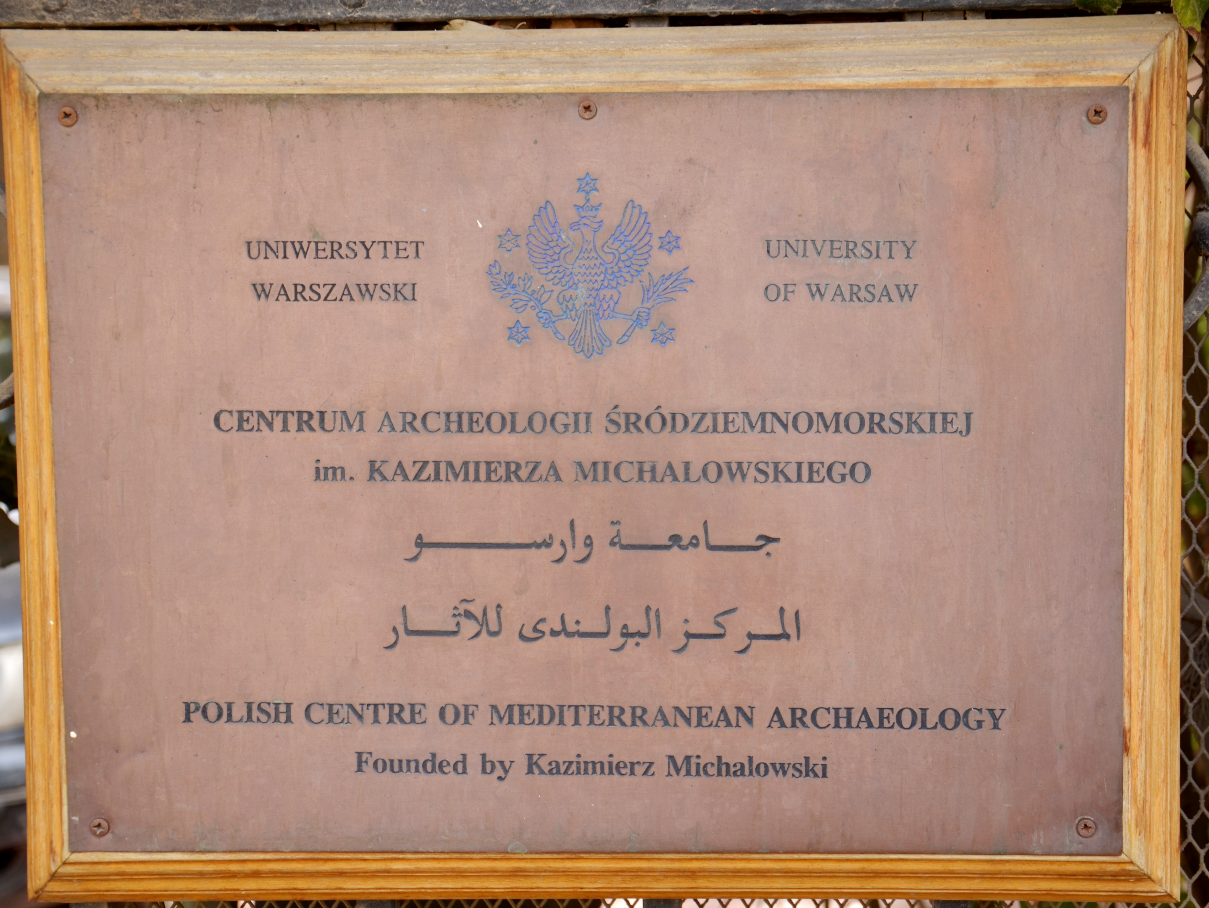 The board in front of the Polish Centre of Mediterranean Archaeology UW, Research Centre in Cairo